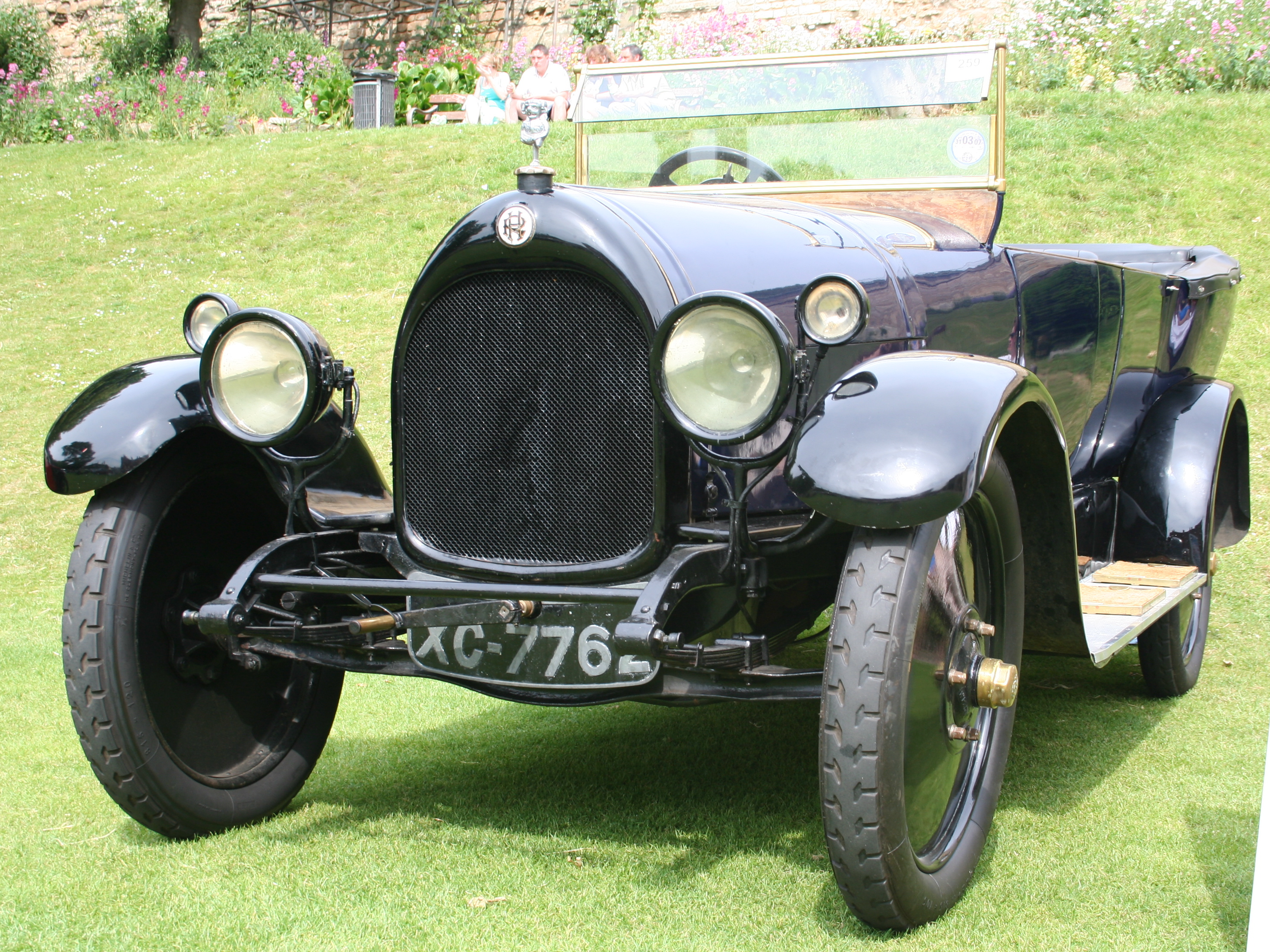 Ruston & Hornsby tourer, 1920. Lincs to the Past: Miscellaneous records Leaflet "A Ruston car comes home." Leaflet concerning the restoration of a 1920 Ruston 16HP A1 Tourer (registration number XC 7762). Includes an accompanying photograph showing the car parked in Minster Yard. Date: Undated [c1967] Repository: Lincolnshire Archives [057] Date: Undated [c1967] MISC DON 1642/9/14 (DVLA) first registered May 1920, 2107 cc